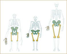 An example of the hypothesised small shifts required to turn a quadraped into a biped. Tiny changes in the angle that the femur enters the pelvis allow bipedal walking to be more comfortable.